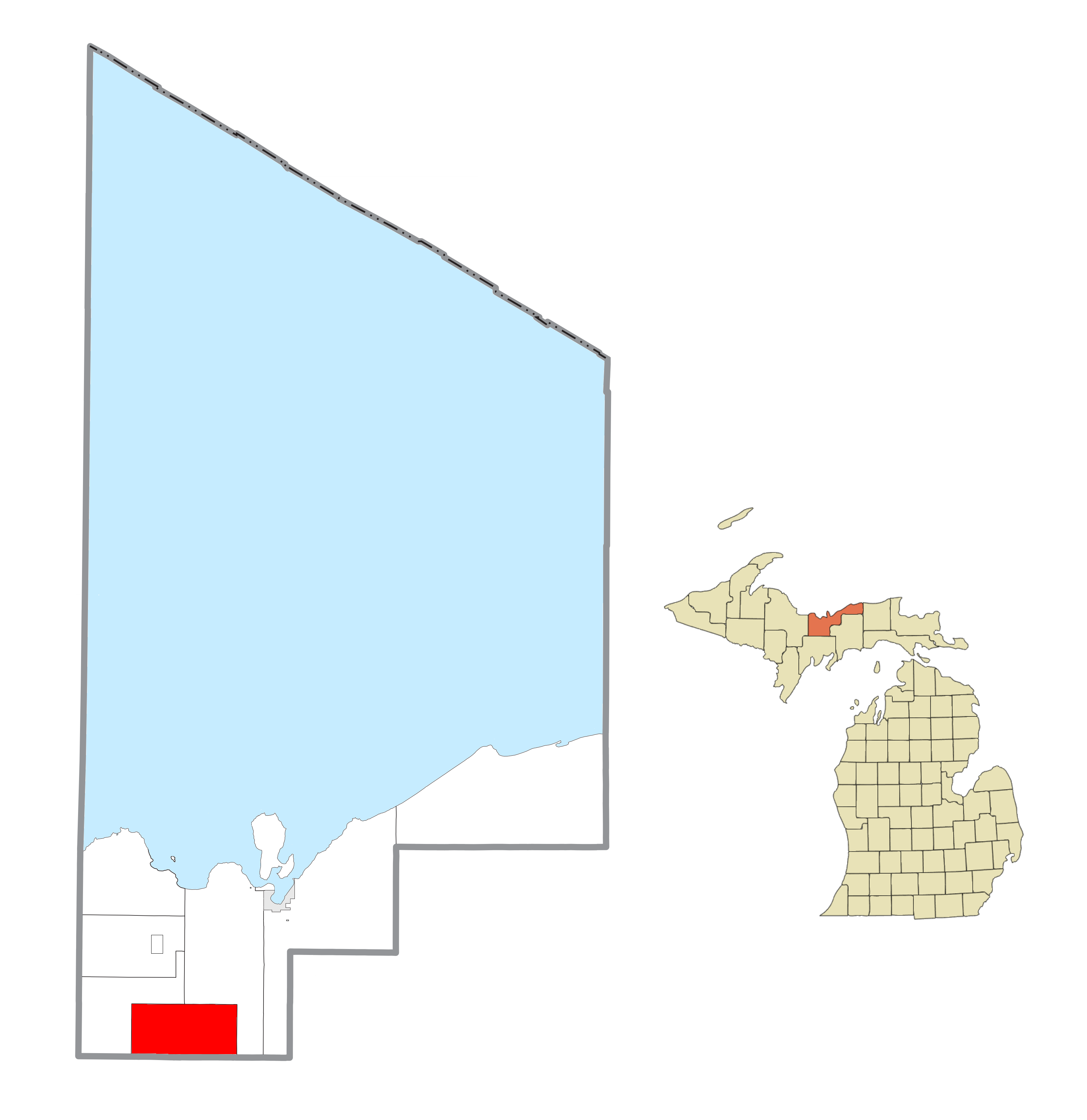 Mathias Township, MI